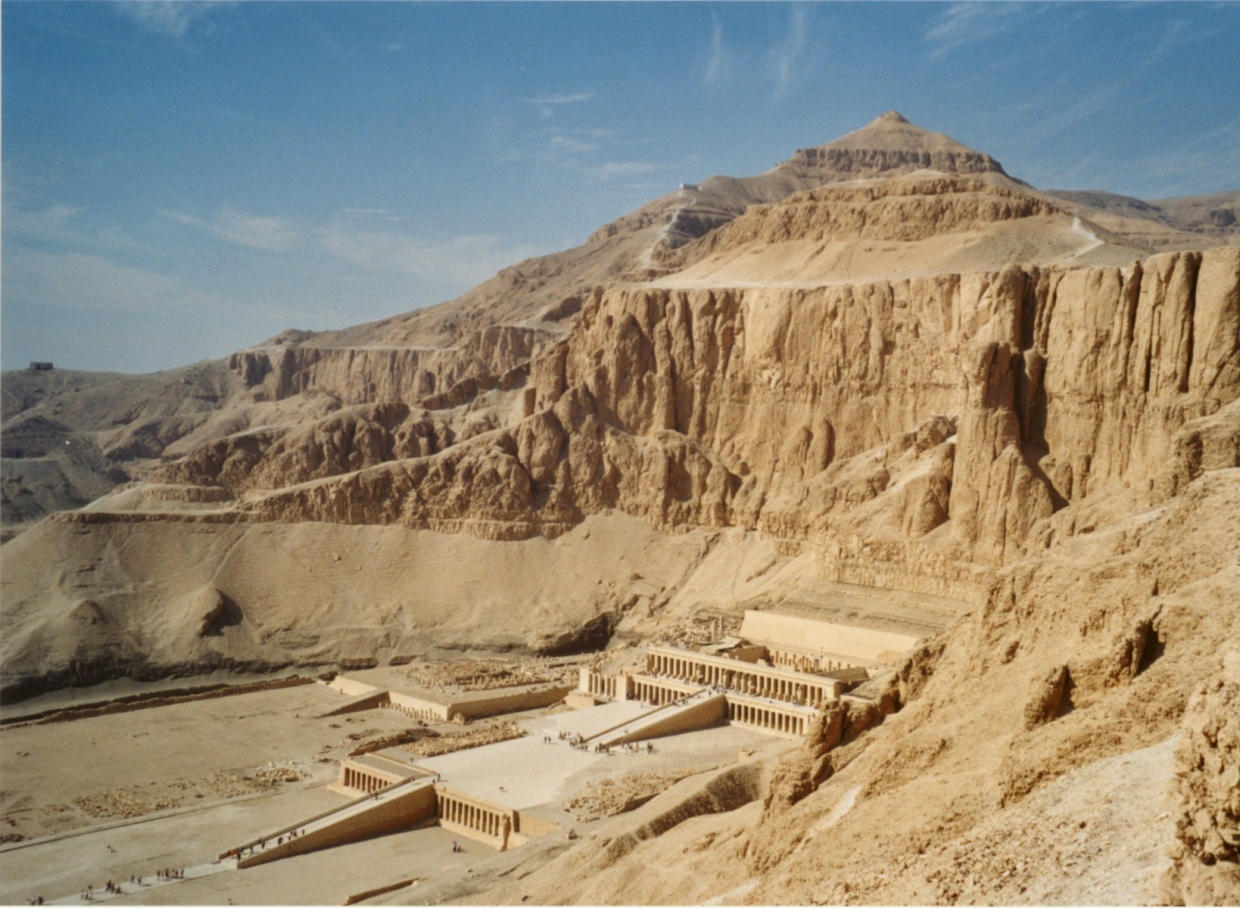 Deir el-Bahari with Hatshepsut's temple, temple of Thutmosis III and Mentuhotep II, West Thebes, Egypt